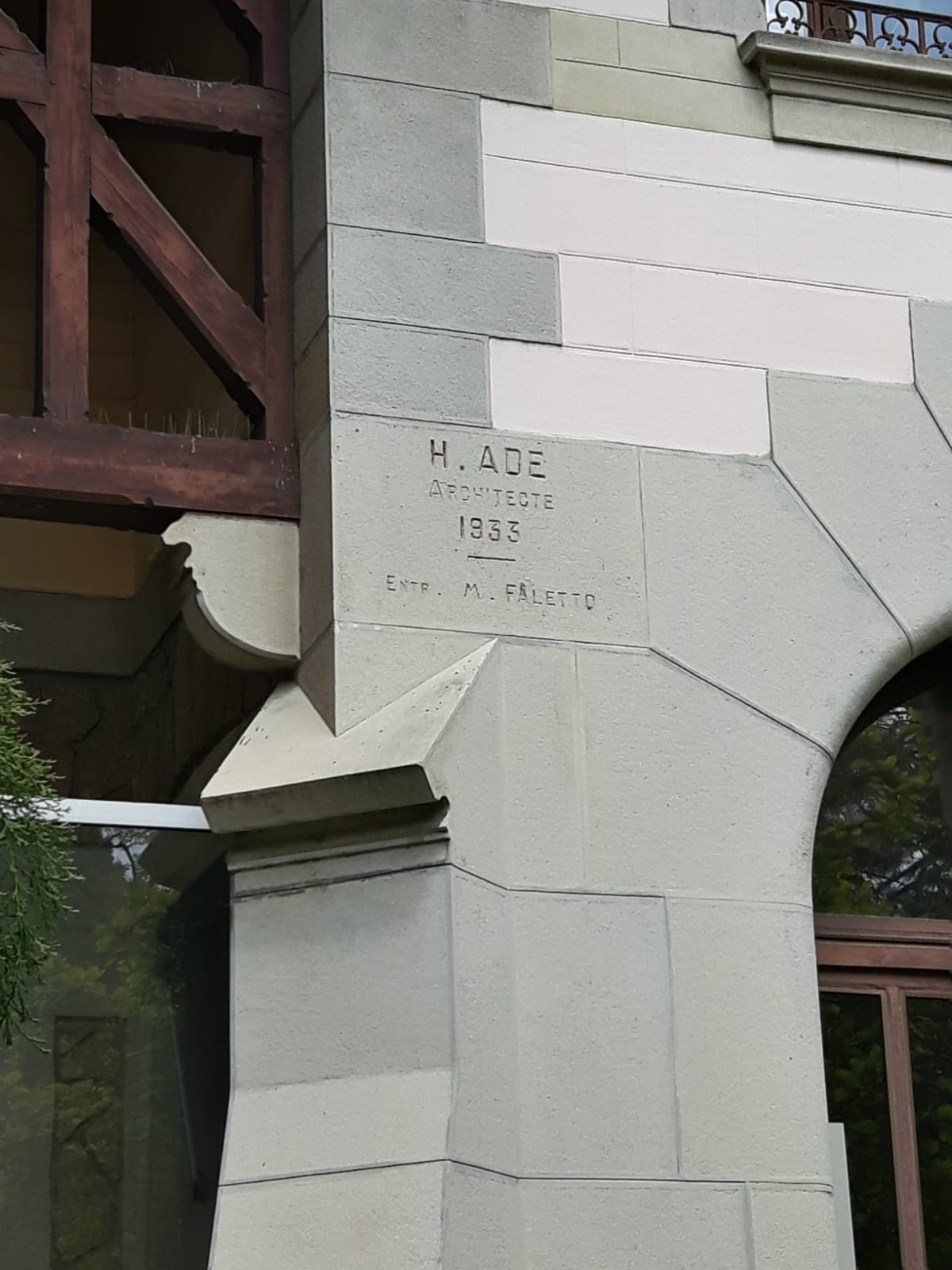 Maison de l'Enfance - Annecy